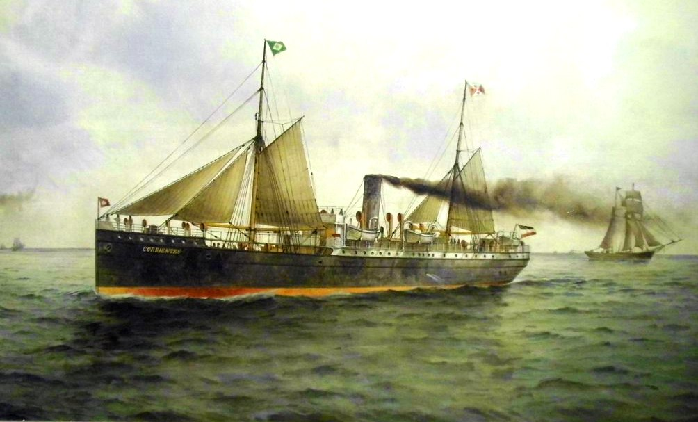 Hamburg Südamerikanische Dampfschiffahrts-Gesellschaft's sail-steamer Corrientes, built by Charles Mitchell & Co of Low Walker, Tyneside in 1881. She was wrecked on Tagus Rock in Montevideo Roads in 1890.